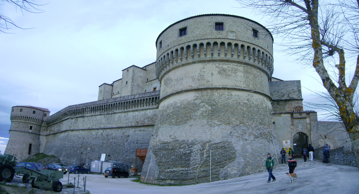 The fortress of San Leo, in province of Rimini, Emilia-Romagna